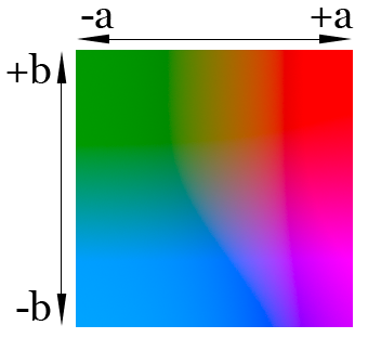 Lab color space at luminance 50%